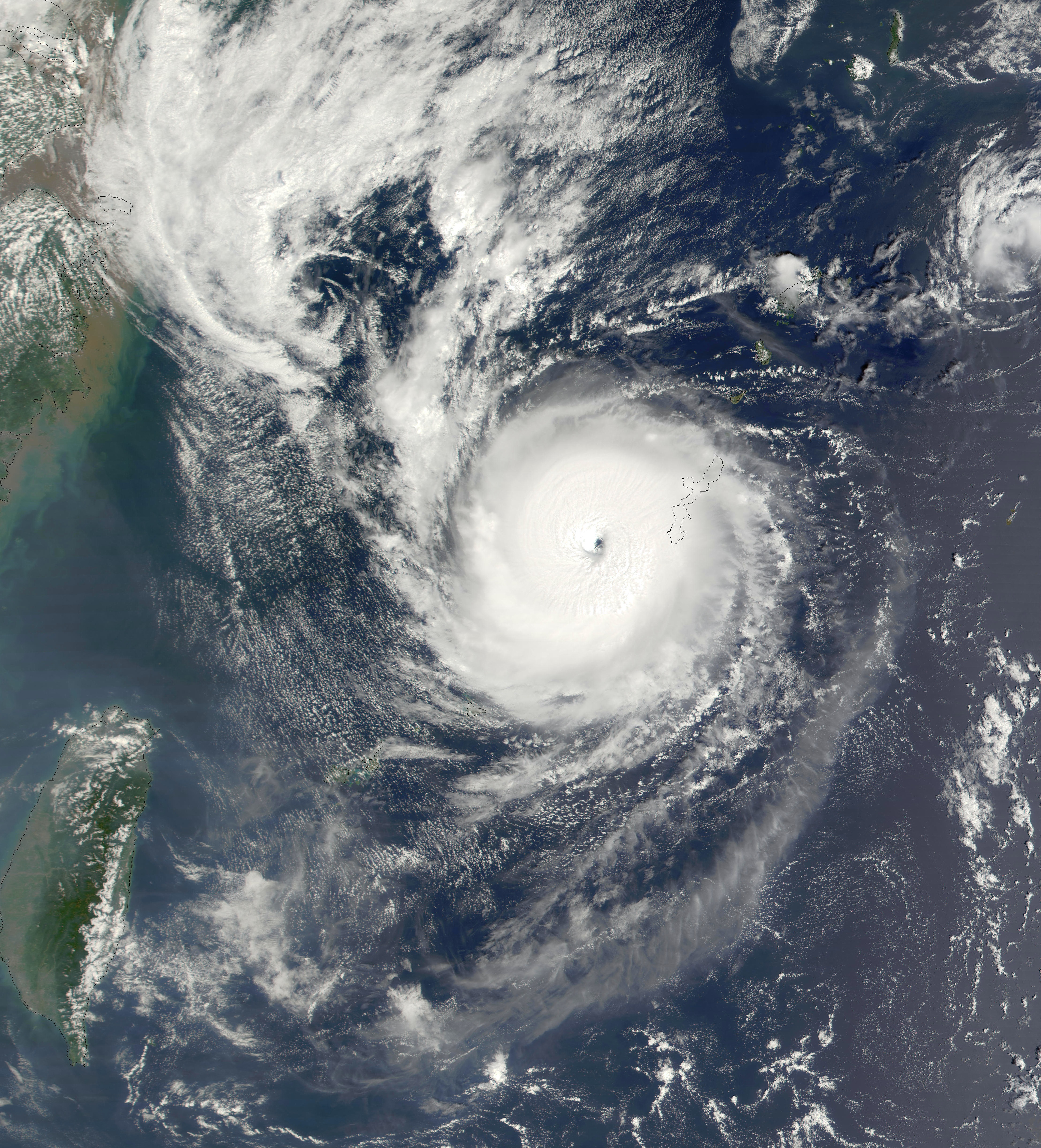 Typhoon Nari on September 11, 2001 at 0210 UTC. Maximum sustained winds (10-minute average) were currently 65 knots. This true-color image of Nari was acquired by the Moderate-resolution Imaging Spectroradiometer (MODIS), flying aboard NASA's Terra satellite, on September 11.